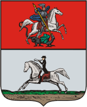 Klin (Moscow oblast), coat of arms (1781)